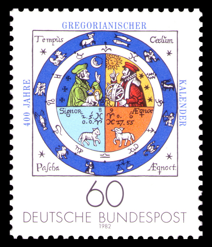 four hundred years of the Gregorian Calendar Ausgabepreis: 60 Pfennig First Day of Issue / Erstausgabetag: 14. Oktober 1982 Michel-Katalog-Nr: 1155